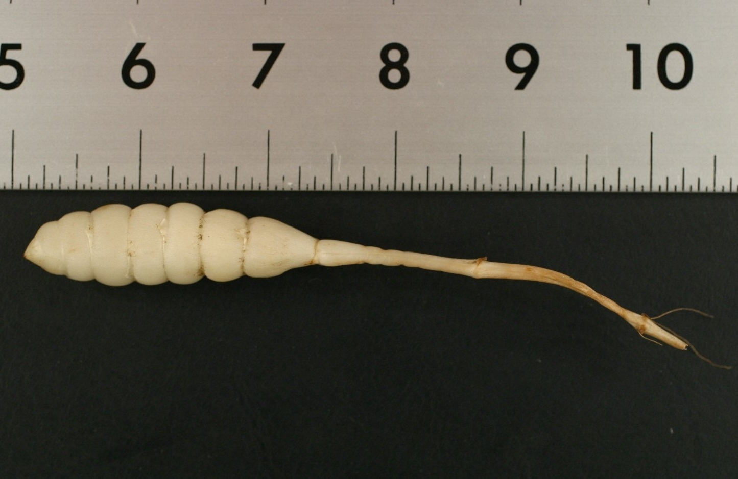 Stachys floridana root, USA